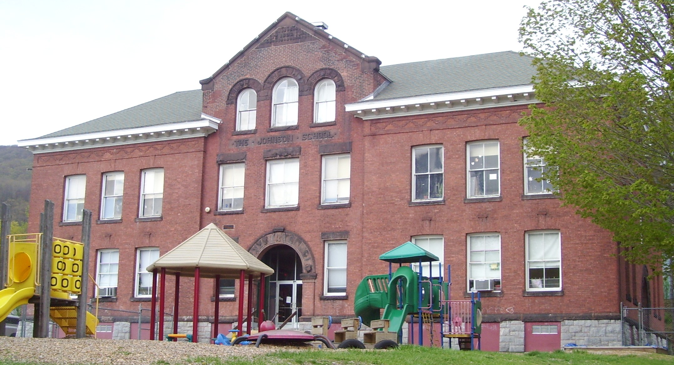 The Johnson School is a historic school located on School Street between Williams and Cady Streets in the Amity Square neighborhood of North Adams, Massachusetts. It was built in 1898 and was designed by Edwin Thayer Barlow in the Romanesque Revival style. The school was one of the last neighborhood school in North Adams to be closed, and is now used for Head Start and other social programs. The Johnson School building was added to the National Register of Historic Places in 1985.